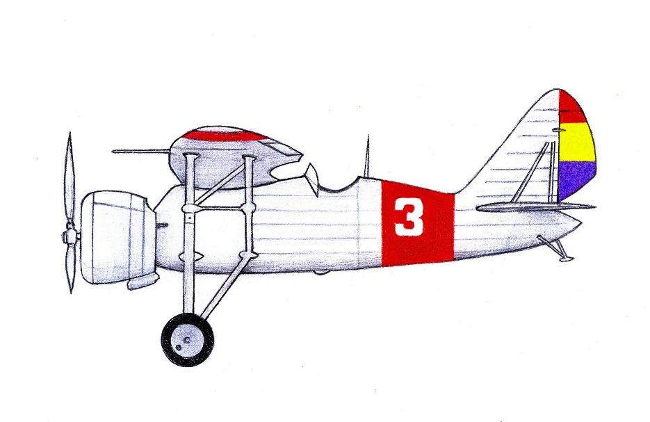 Loire 46 of the Spanish Republican Air Force - Madrid defence